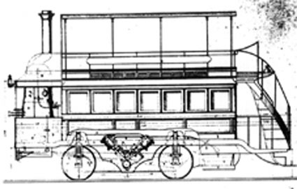 1876 Dalifol double decker Tram for 50 passengers, built by Forges et fonderies A. Dalifol in Paris following plans by steam car pioneer Amédée Bollée père (1844–1917). This tram was intended for the Compagnie des Omnibus de Paris which didn't weant it. This vehicle had a vertical boiler in front, all wheel drive by a steam engine for each of the four wheels; these were all steerable. It further featured independent suspension for all wheels by telescopic tubes, shaft transmission, and had a device that enabled leaving and reentering the rails. It operated fine when testing it, just needing rework of the shafts.